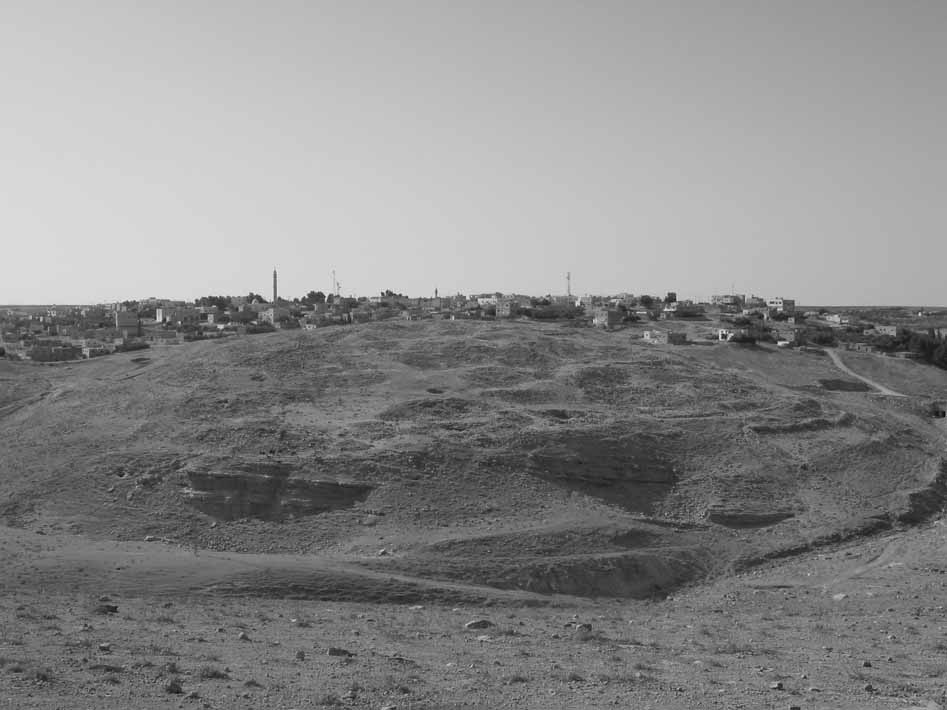 modern Dhiban with ancient Dhiban in the foreground, looking south. Photo taken June, 2004